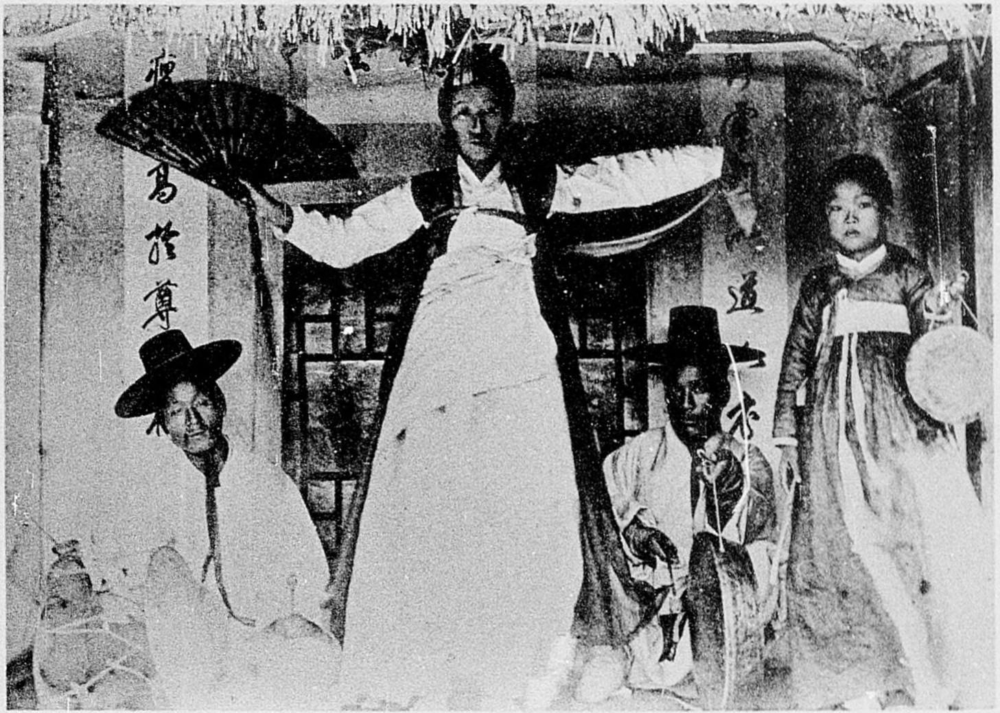 Musician driving away evil spirits.